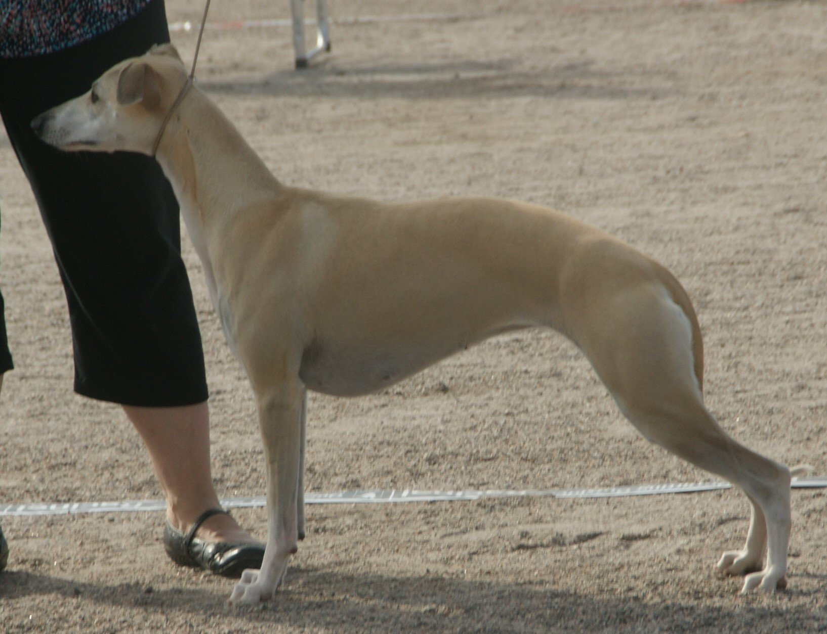 Whippet, fawn